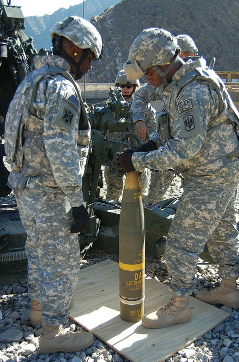 The M982 Excalibur global positioning system/inertial navigation system (GPS/INS) artillery round was fired for the first time in Afghanistan at Camp Blessing in February. The 155-millimeter round is used with the enhanced portable inductive artillery fuse setter, which creates its GPS/INS capability. The fuse setter gives the round specific grid coordinates for its target. This “smart munition” provides capability to attack three target sets: soft vehicles, armored vehicles, and reinforced bunkers. The increased effectiveness of the Excalibur round lightens the logistics burden on deployed units. It also reduces collateral damage through a concentrated fragmentation pattern, increased accuracy, and a near-vertical decent. Here, Soldiers from C Battery, 3d Battalion, 321st Field Artillery Regiment, use the enhanced portable inductive artillery fuse setter to program target grid coordinates into an Excalibur round. (Photo by Sgt. Henry Selzer)